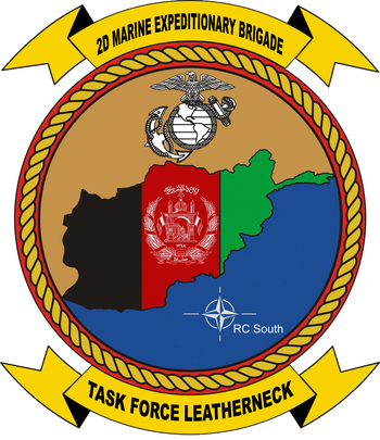 Logo for Task Force Leatherneck. US Marine Unit that is headed to Afghanistan in 2009. It is composed of units forming the 2nd Marine Expeditionary Brigade.